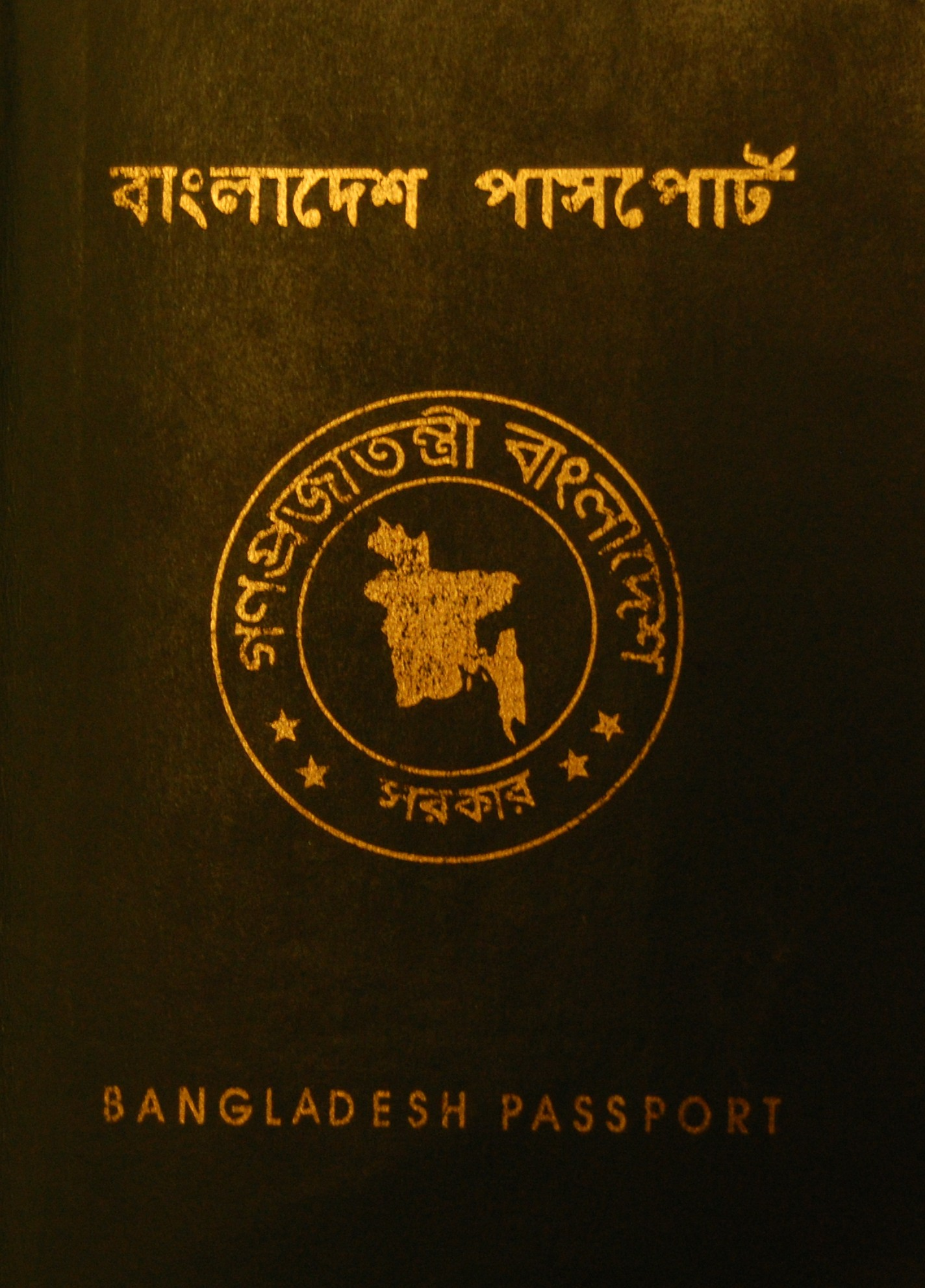 The cover of the standard Bangladeshi passport.